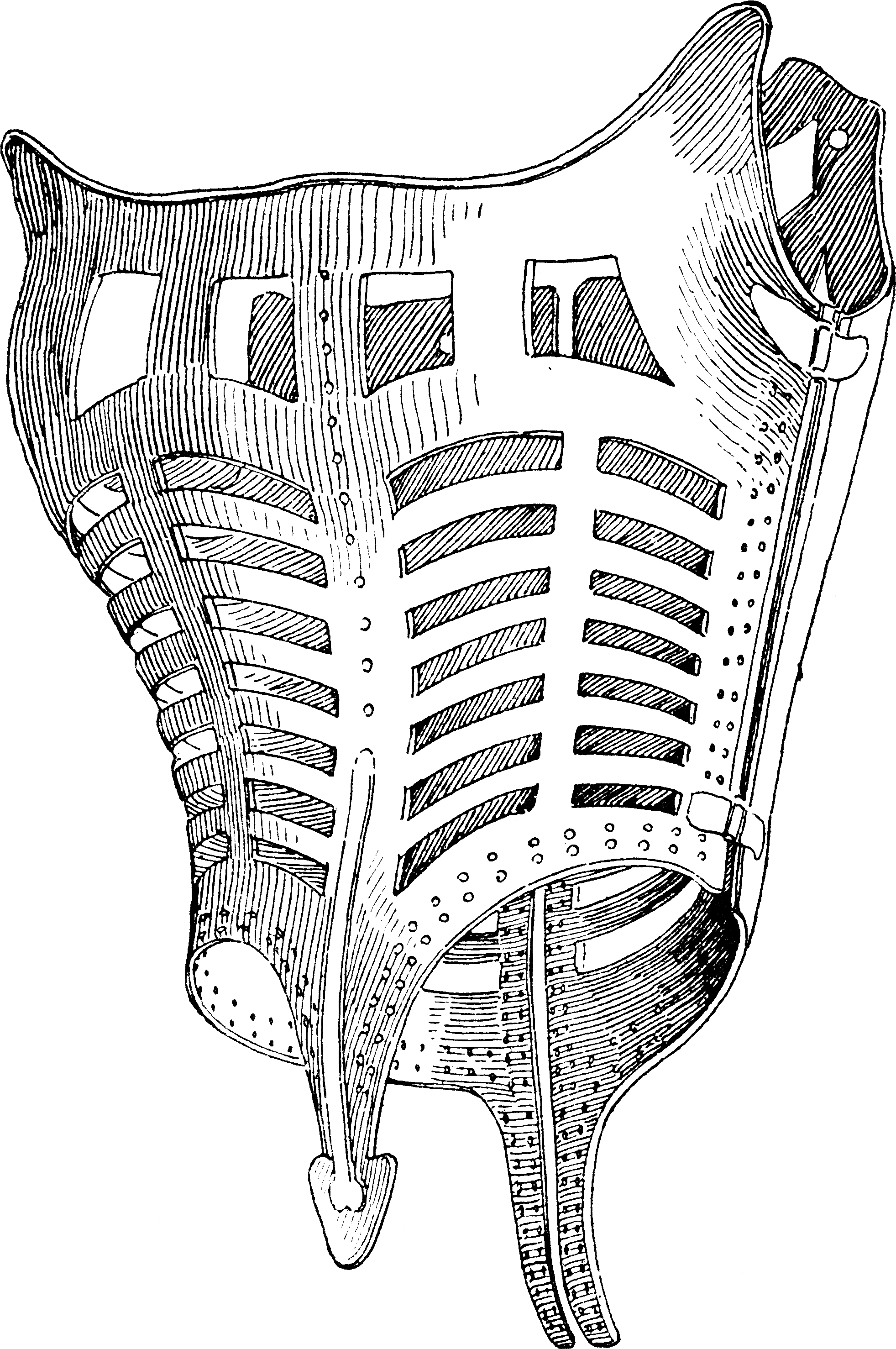 Engraving of a iron corset held by the Musée de Cluny